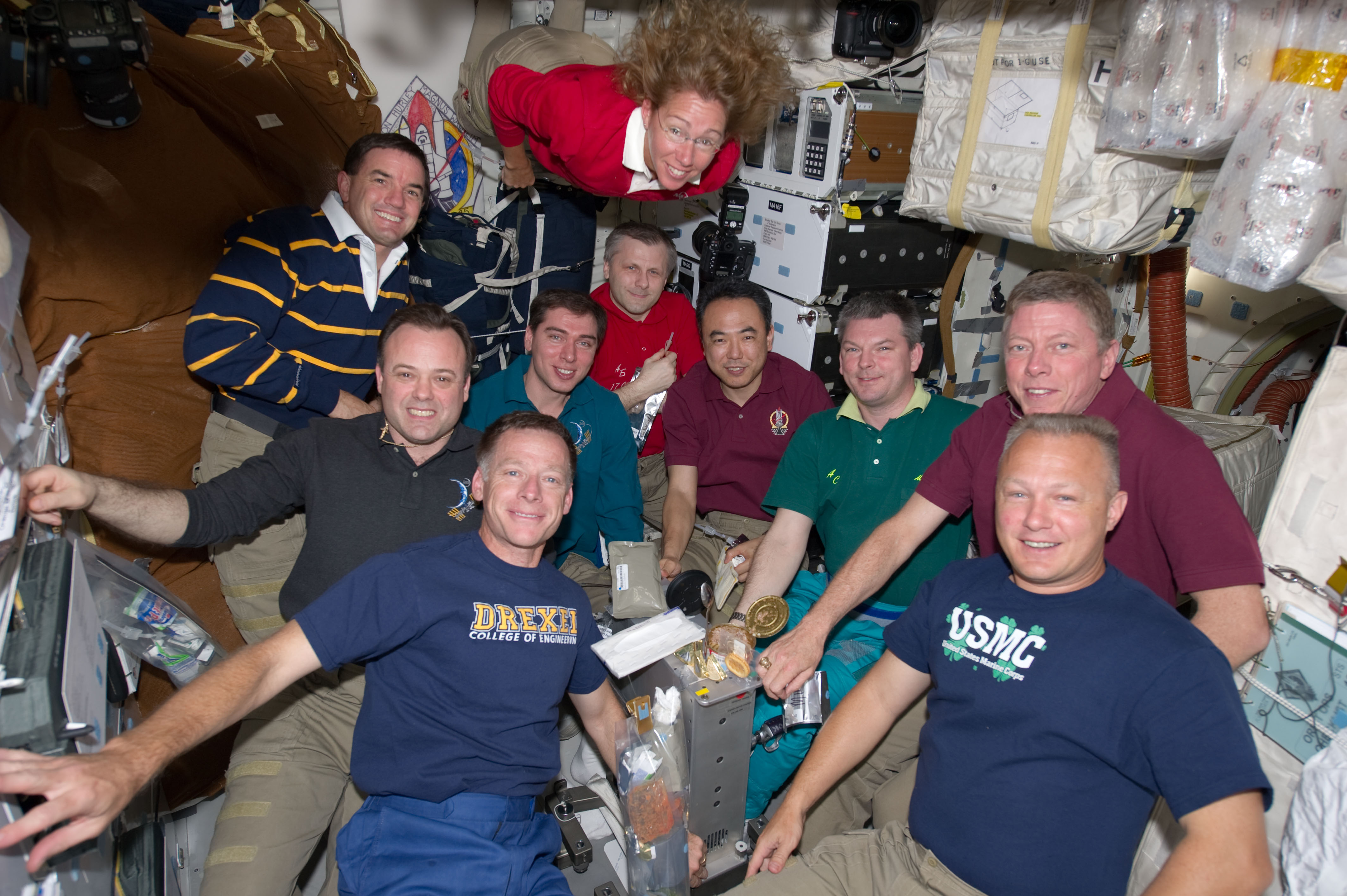 Seven astronauts – six from NASA and one from the Japan Aerospace Exploration Agency (JAXA) – and three Russian cosmonauts participate on July 14, 2011 in a special meal on the Space Shuttle Atlantis' middeck. One of the final meals shared between shuttle and station crews has been called "The All-American Meal." The STS-135 crew consists of NASA astronauts Chris Ferguson, Doug Hurley, Sandy Magnus and Rex Walheim; the Expedition 28 or station crew members are JAXA astronaut Satoshi Furukawa, NASA astronauts Ron Garan and Mike Fossum, and Russian cosmonauts Andrey Borisenko, Alexander Samokutyaev and Sergei Volkov.